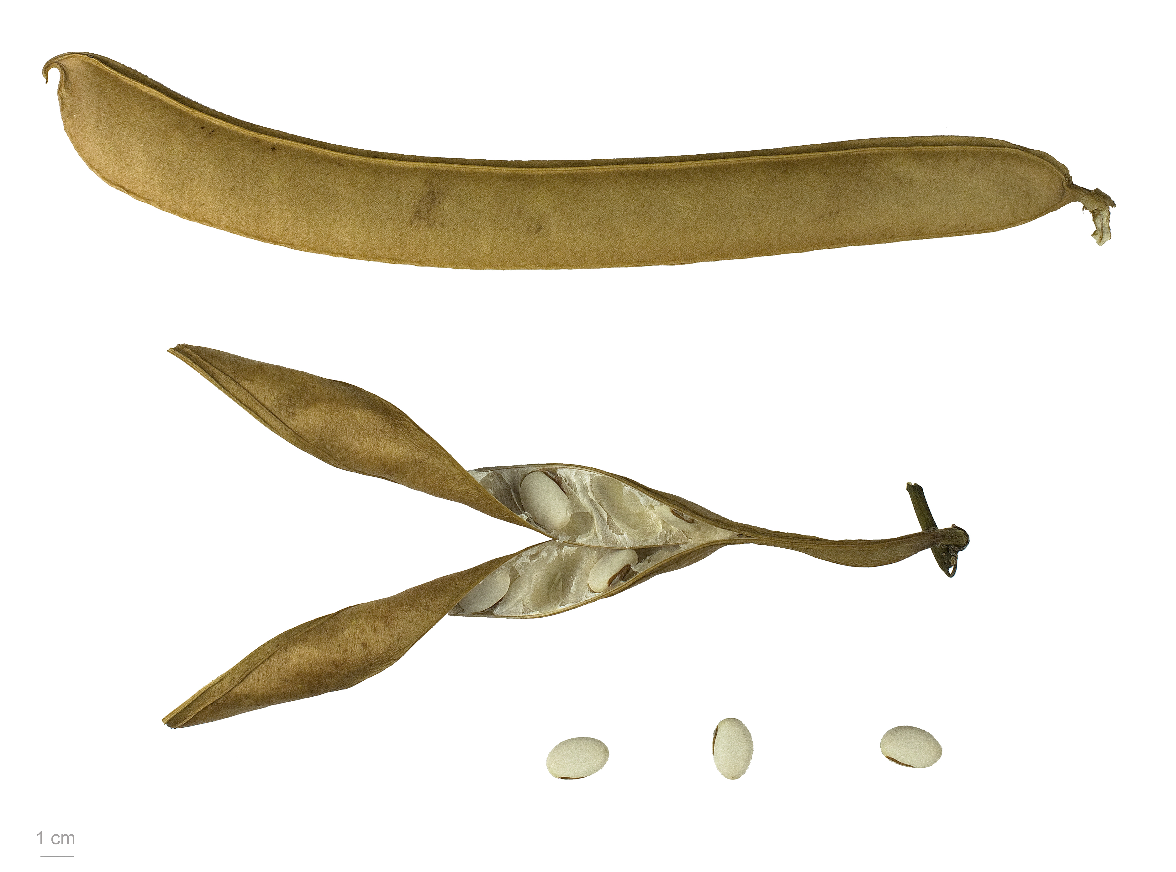 jack bean, fruits and seeds